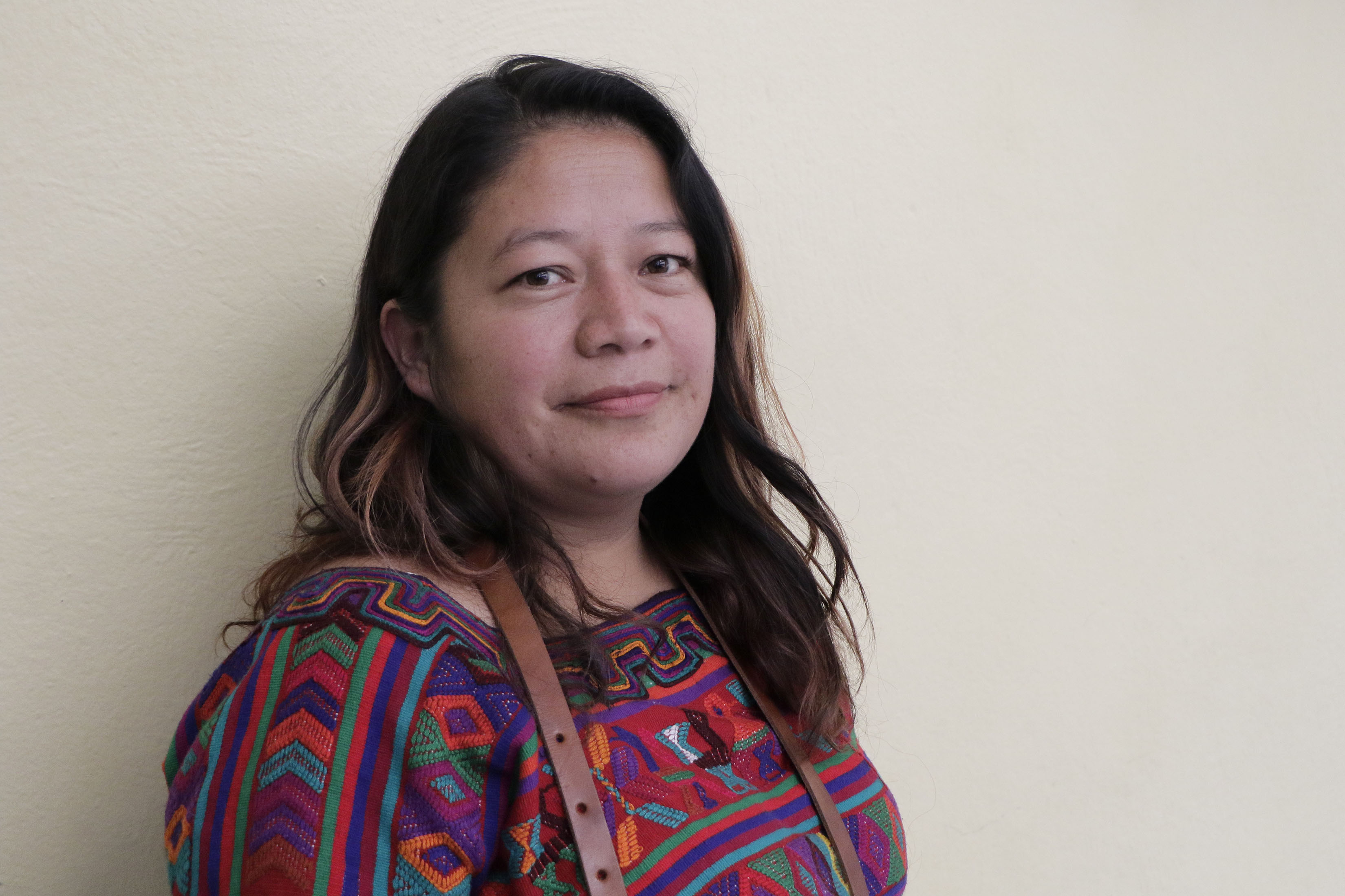 Guatemalan poet, Gladys Tzul Tzul, special guest at the fifth Festival of Indigenous Cultures, Peoples and original Neighborhoods in Mexico City, based in the Zócalo of the capital. Photo by: Tania Vicoria/Secretary of Culture CDMX